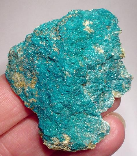 Langite Locality: Podlipa and Reinera Mines, Ľubietová (Libetbánya; Libethen) ore belt, Western Slovenské Rudohorie Mts, Banská Bystrica Region, Slovakia (Locality at ) Size: 5.3 x 4.7 x 1.5 cm. An UNCOMMONLY RICH and SHOWY specimen of scintillating, greenish-blue langite microcrystals from a small new find in the Slovak Republic.